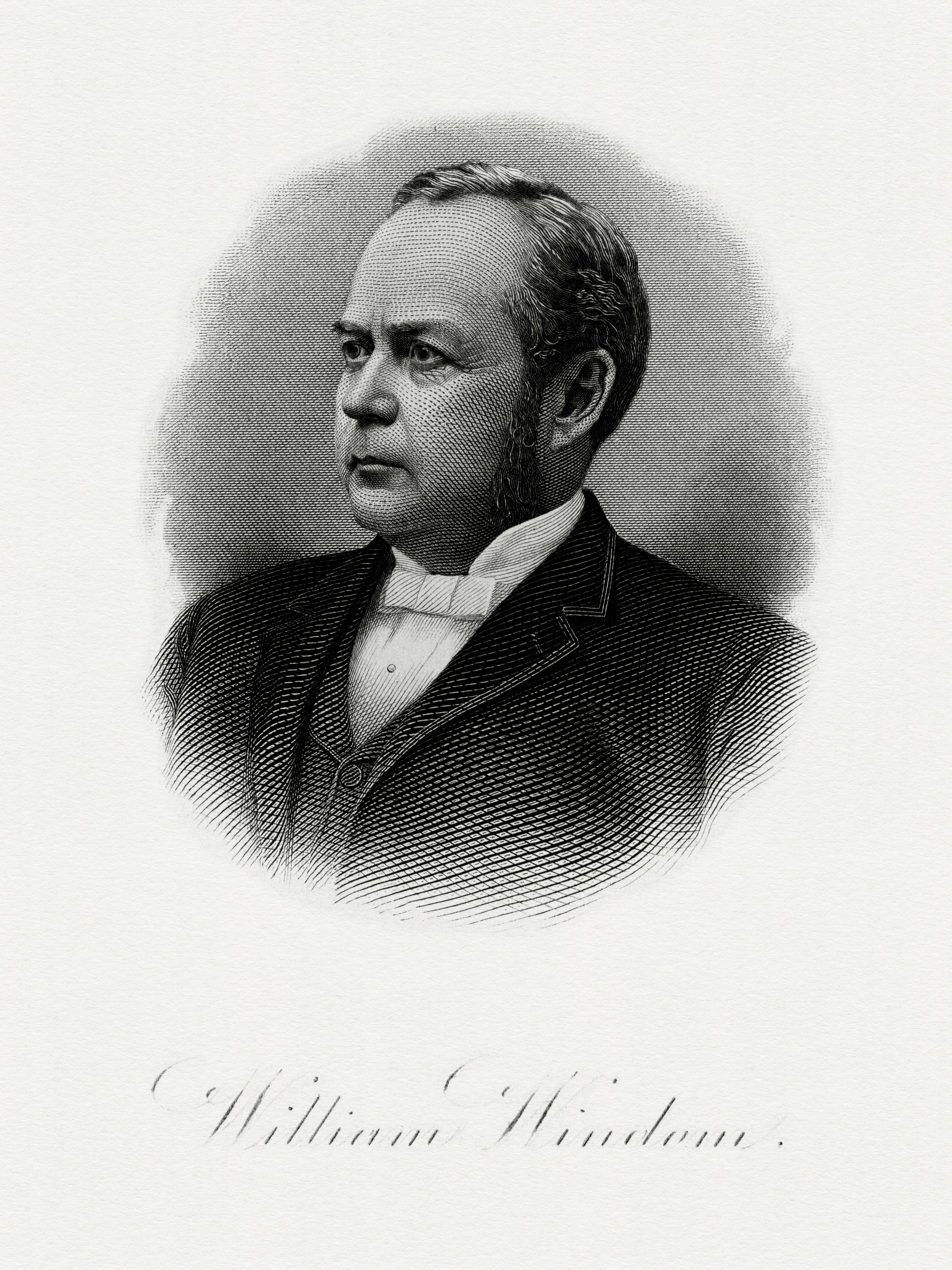 Engraved BEP portrait of U.S. Secretary of the Treasury William Windom